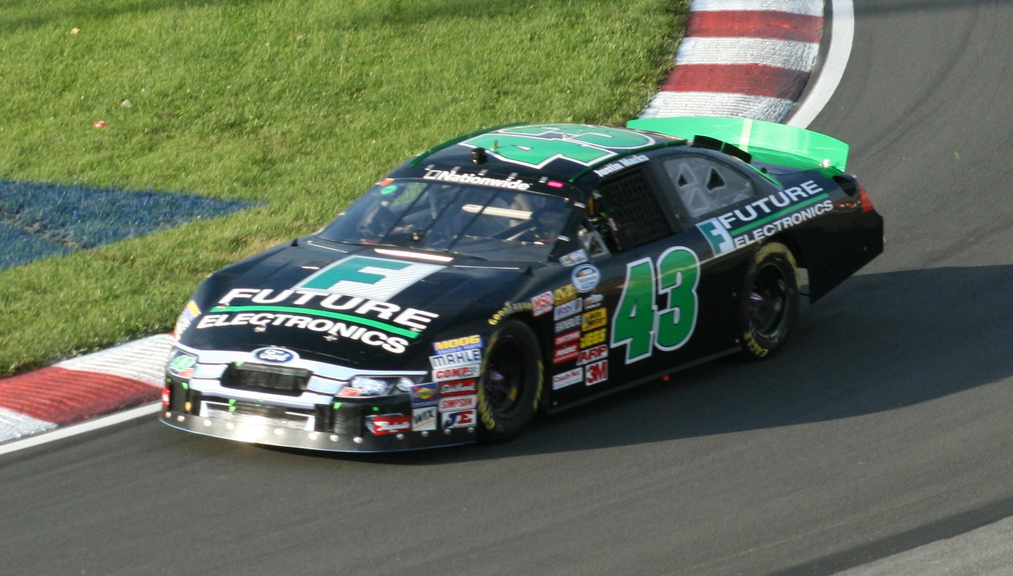 Justin Marks in the qualification for the 2010 NAPA Auto Parts 200 at the Circuit Gilles Villeneuve in Montreal.